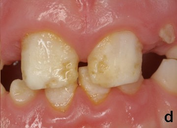 amelogenesis imperfecta, hypoplastic type. The phenotype is slightly different in this patient, who is brother of female illustrated in image "C"